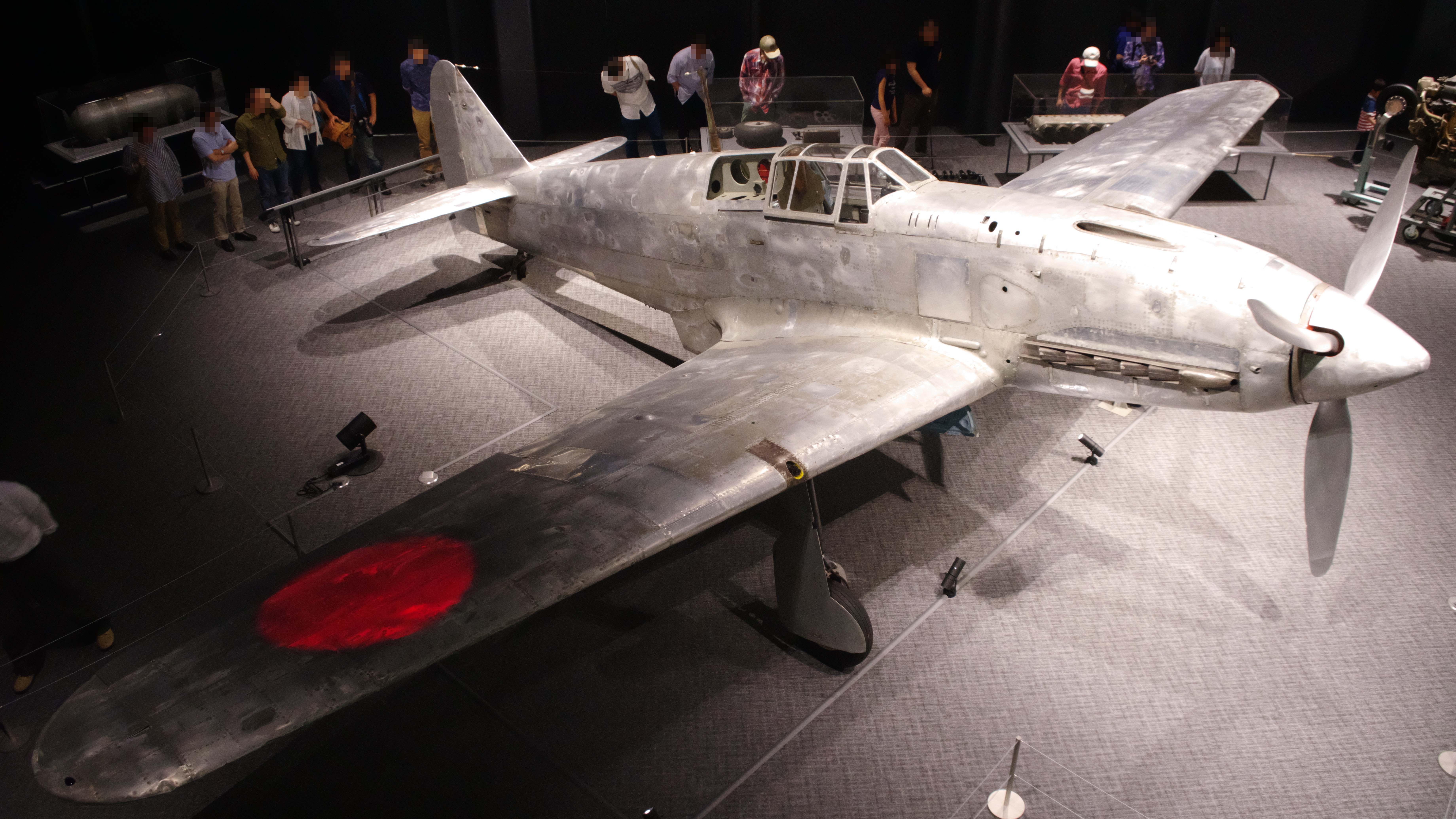 Kawasaki Ki-61 (Hien) in Kakamigahara Aerospace Science Museum.